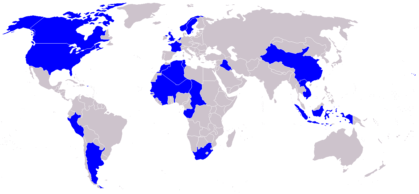 Operators of the Northrop A-17. Own work, derivative of File:BlankMap-World-WWII.PNG.